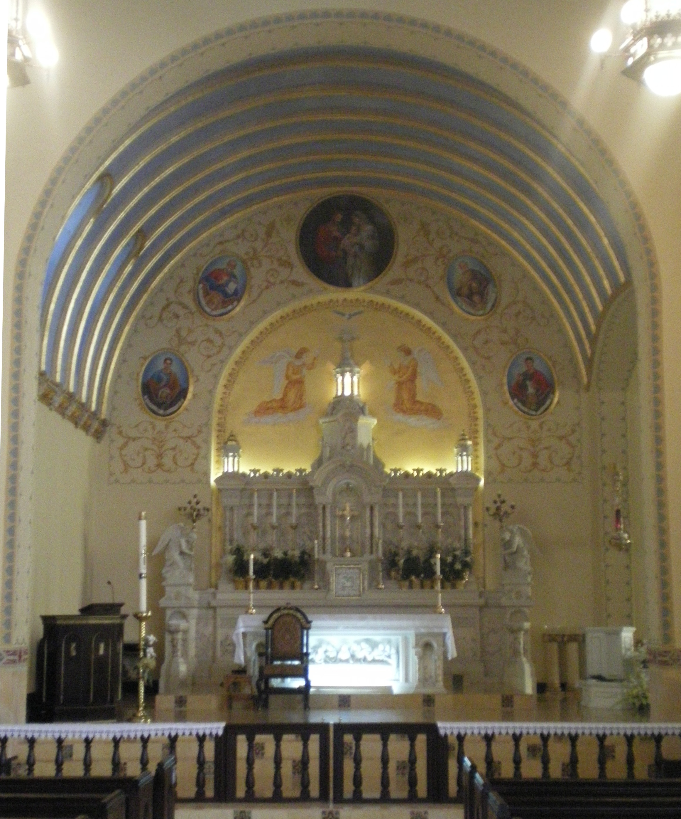 Altar at Holy Family Catholic Church (Glendale, California) Holy Family Catholic Church (Glendale, California)